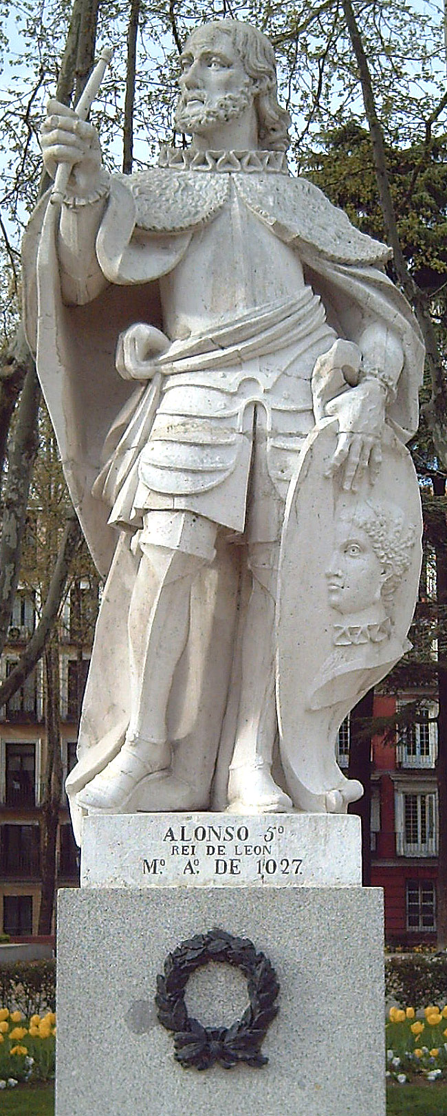 Statue of Alfonso V of León (994–1028) at the Plaza de Oriente (square) in Madrid (Spain). Sculpted in white stone by Domingo Martínez between 1750 and 1753.